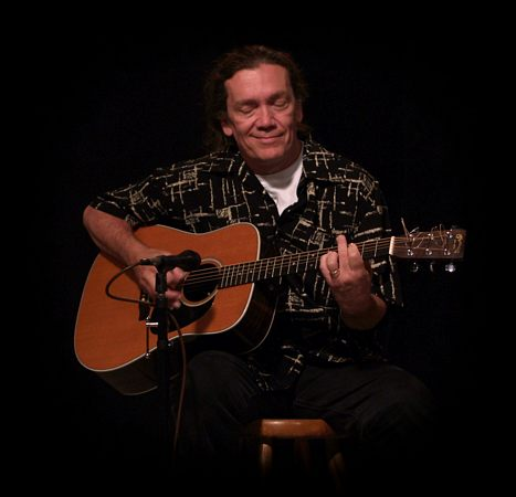 Guitar player, musician G.E. Smith was the leader of the Saturday Night Live band for several years. See related photos on my website at